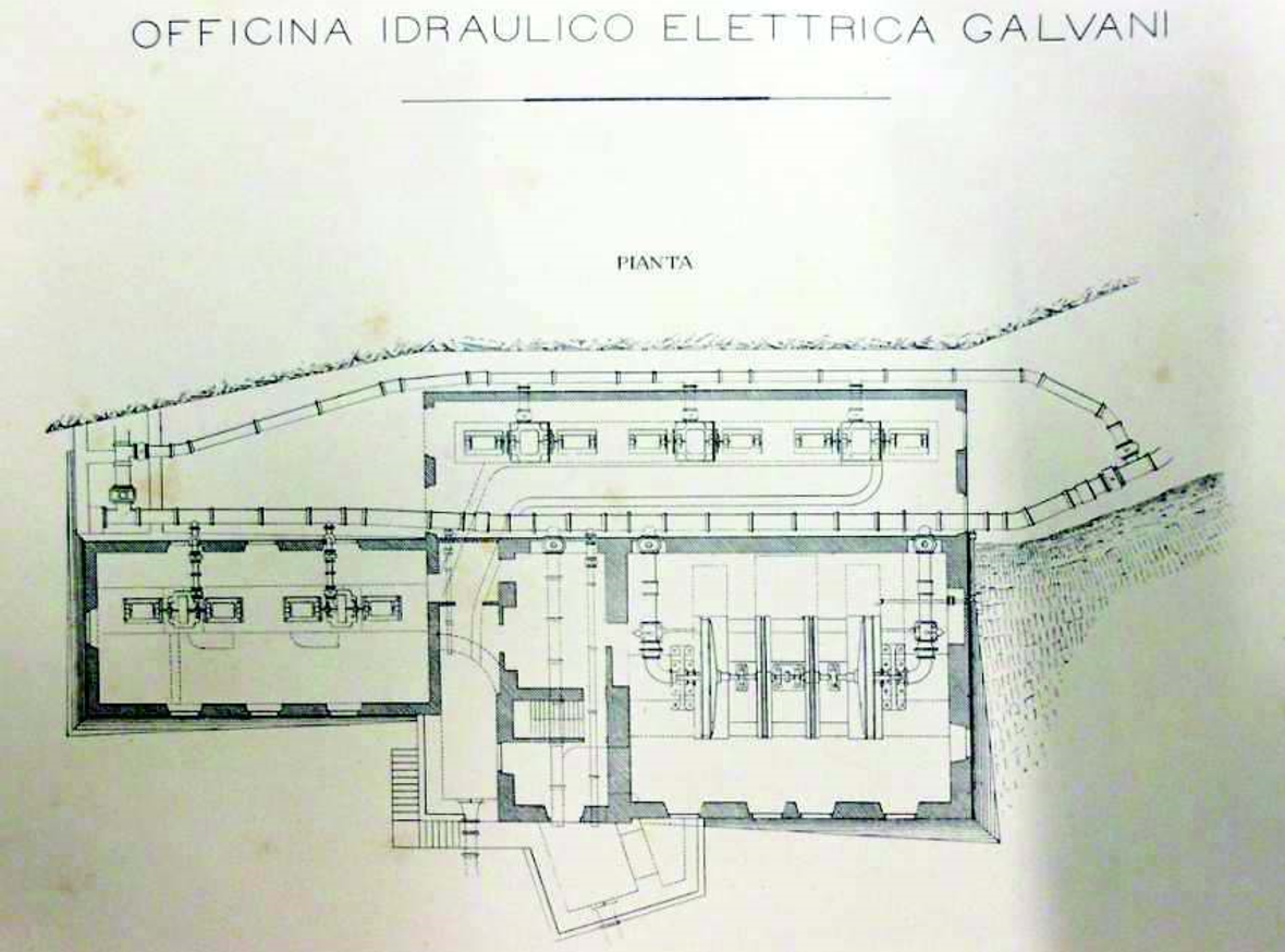 Floor plan of the hydroelectric power station Galvani of the Società Anonima dell'acquedotto De Ferrari Galliera 1893. The two turbines for the transmission of the Costa jute spinning mill can be seen on the lower right, the remaining five turbines powered generators of the Thury direct current transmission system.